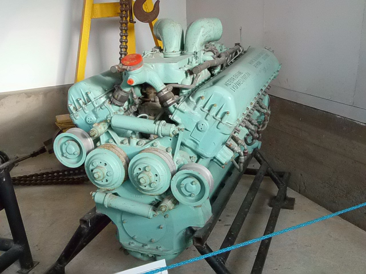 Engine of Tank